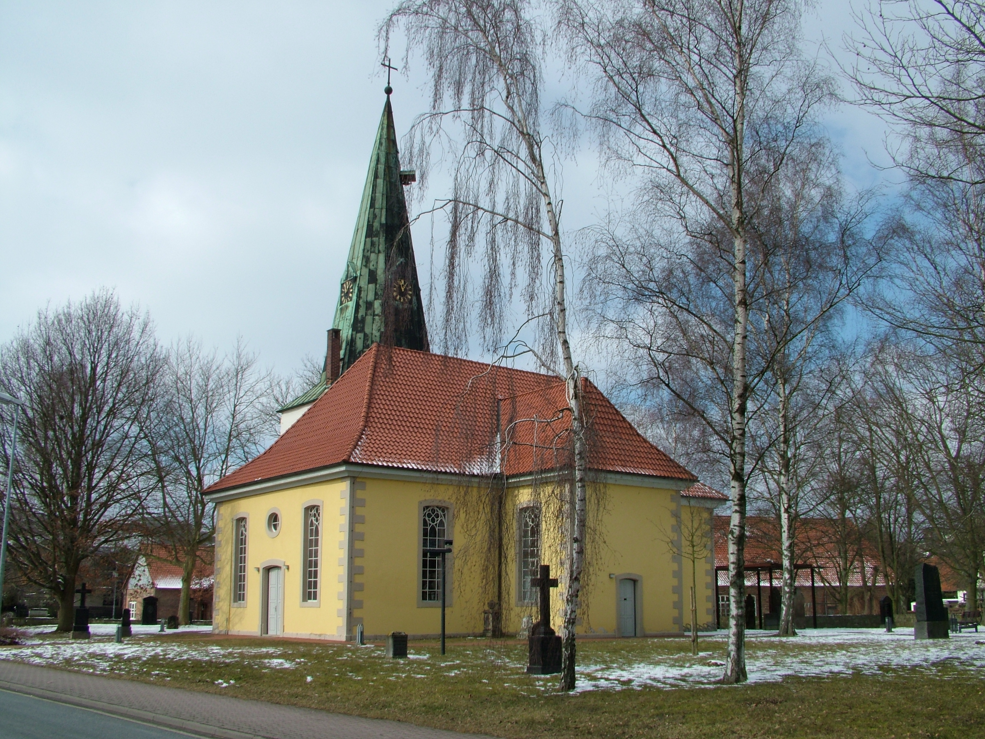 the Lutheran church in Sehnde near Hannover, Germany